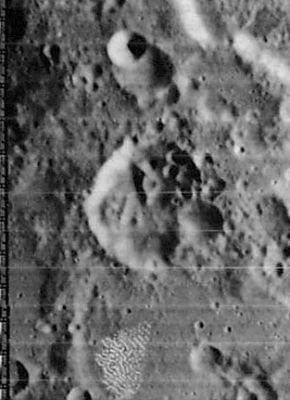 Pons lunar crater - Lunar Orbiter IV image LO iv 084 h1